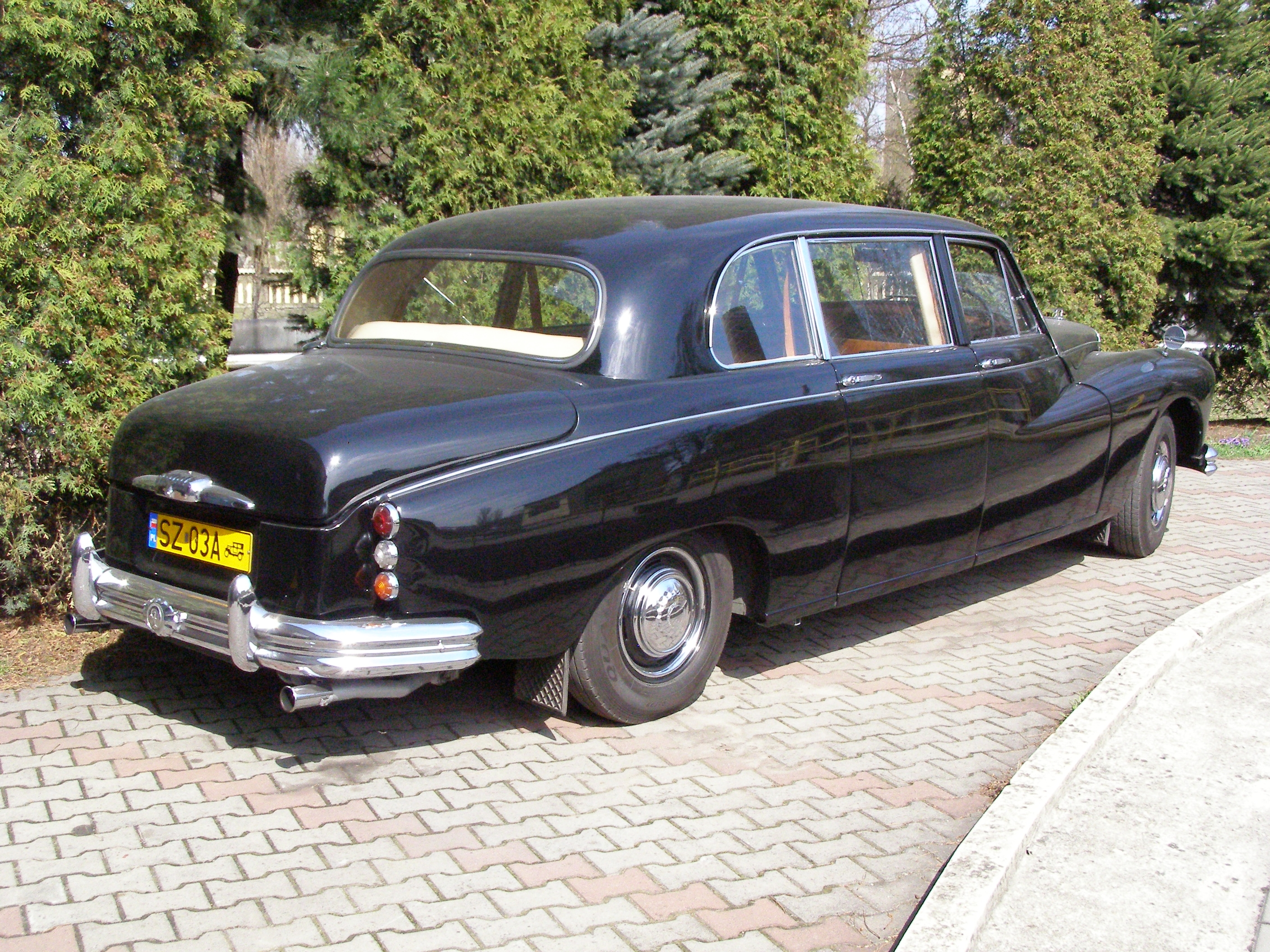 Zabrze - Muzeum of Antique Vehicles of the Silesian Motor Club - a 1966 Daimler Majestic Major